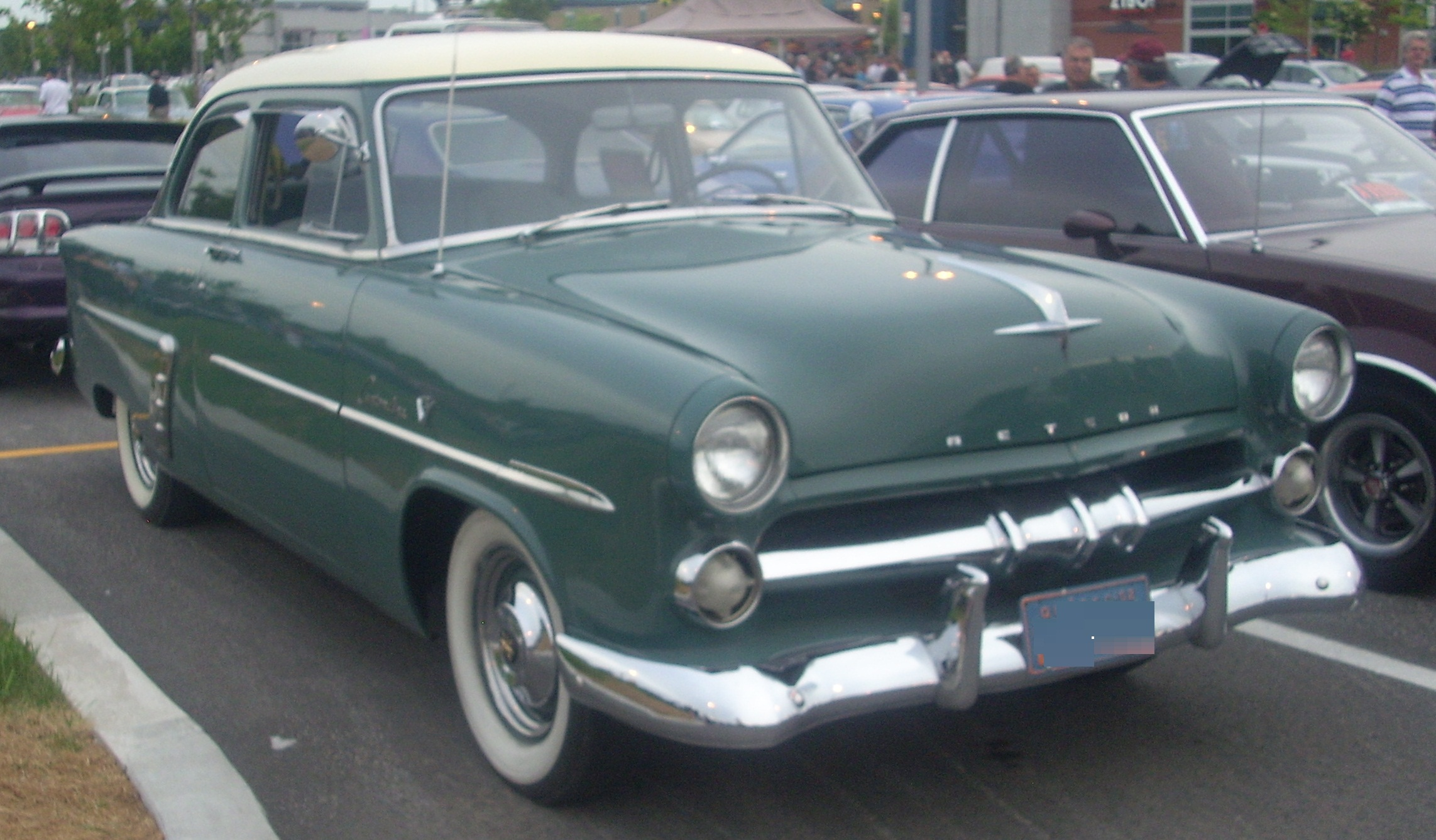 1952 Meteor Customline photographed in Laval, Quebec, Canada at Centropolis Laval.